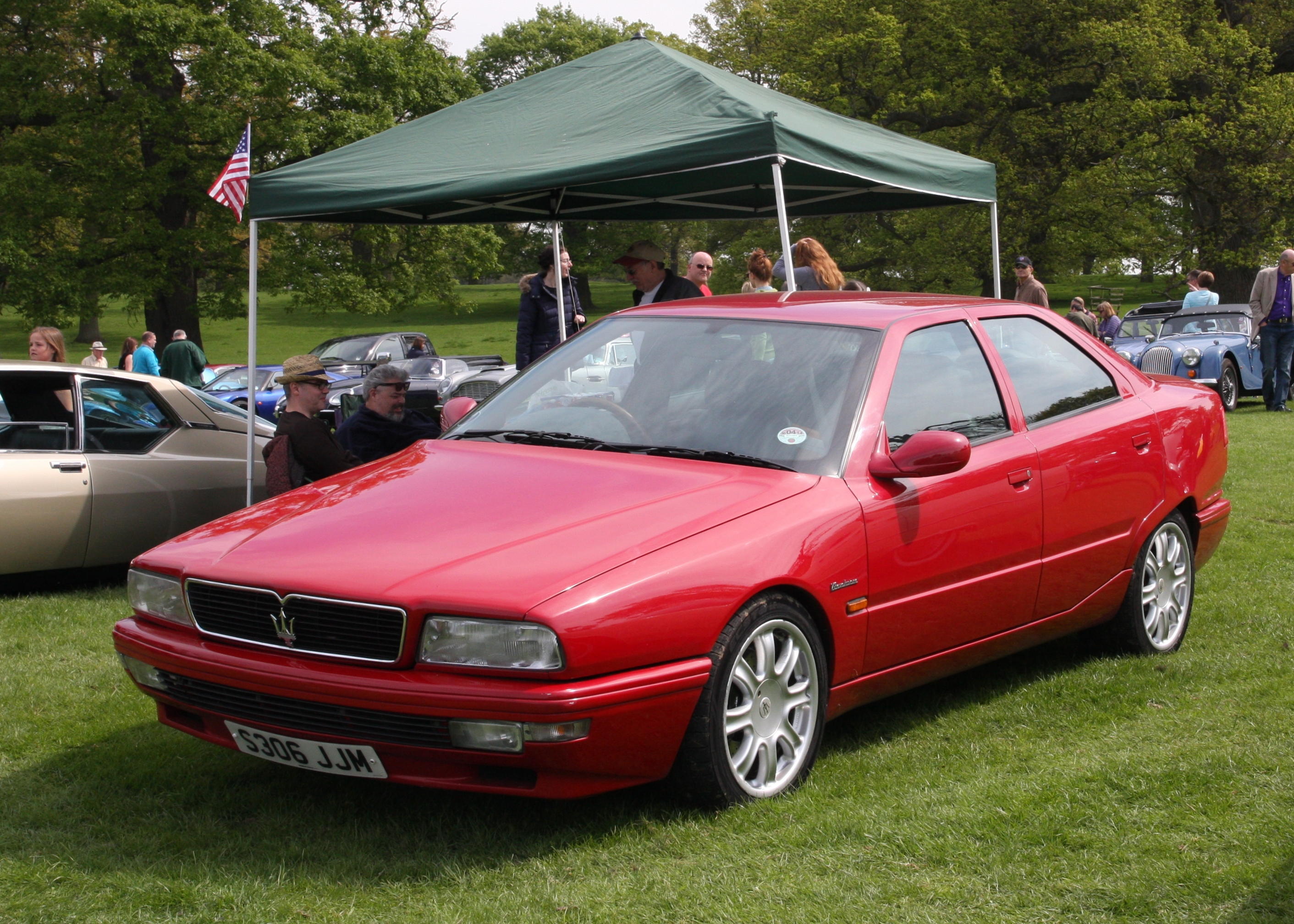 Maserati Quattroporte IV (1998)